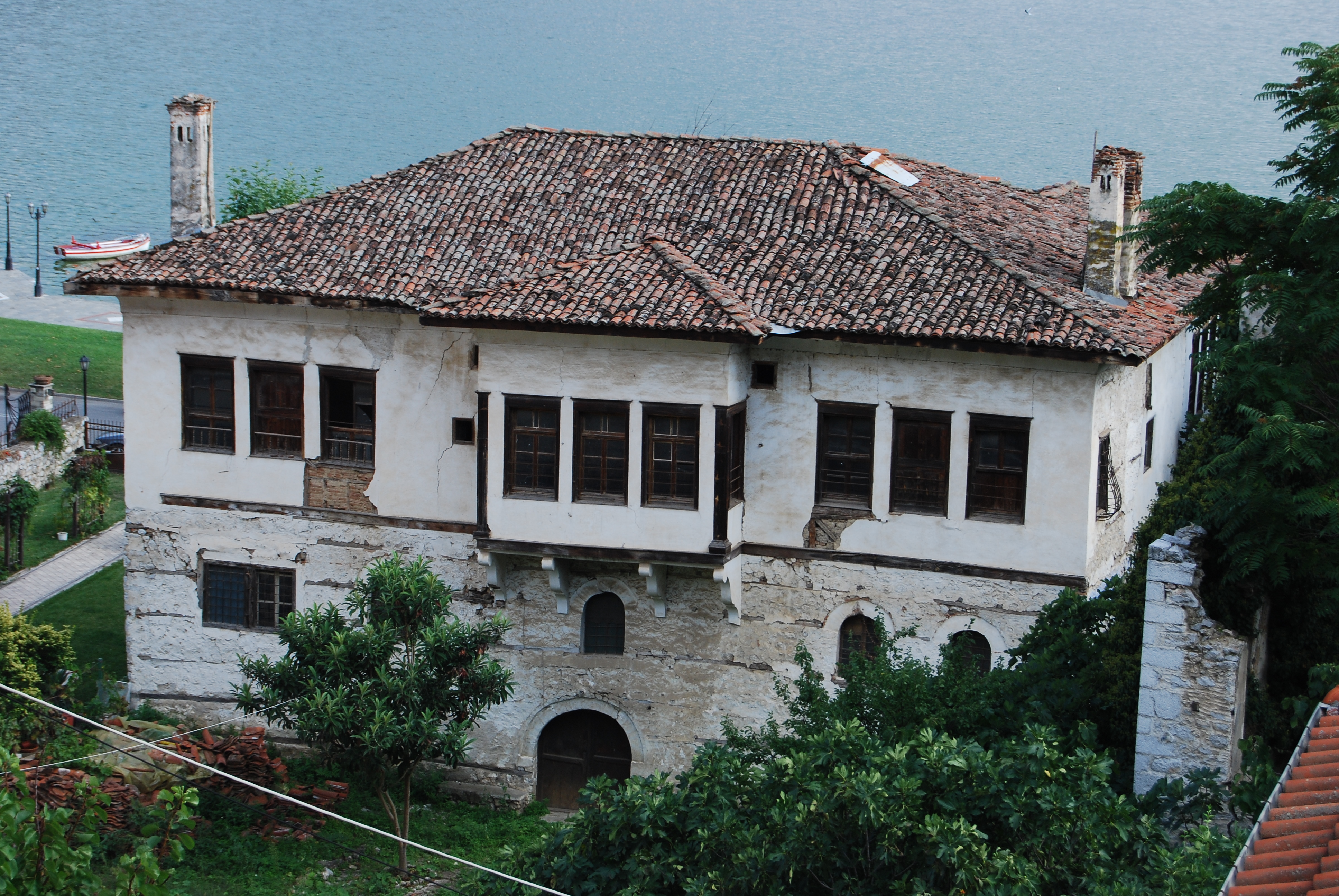 Skoutaris Mansion from Emmanuil Pappas Street